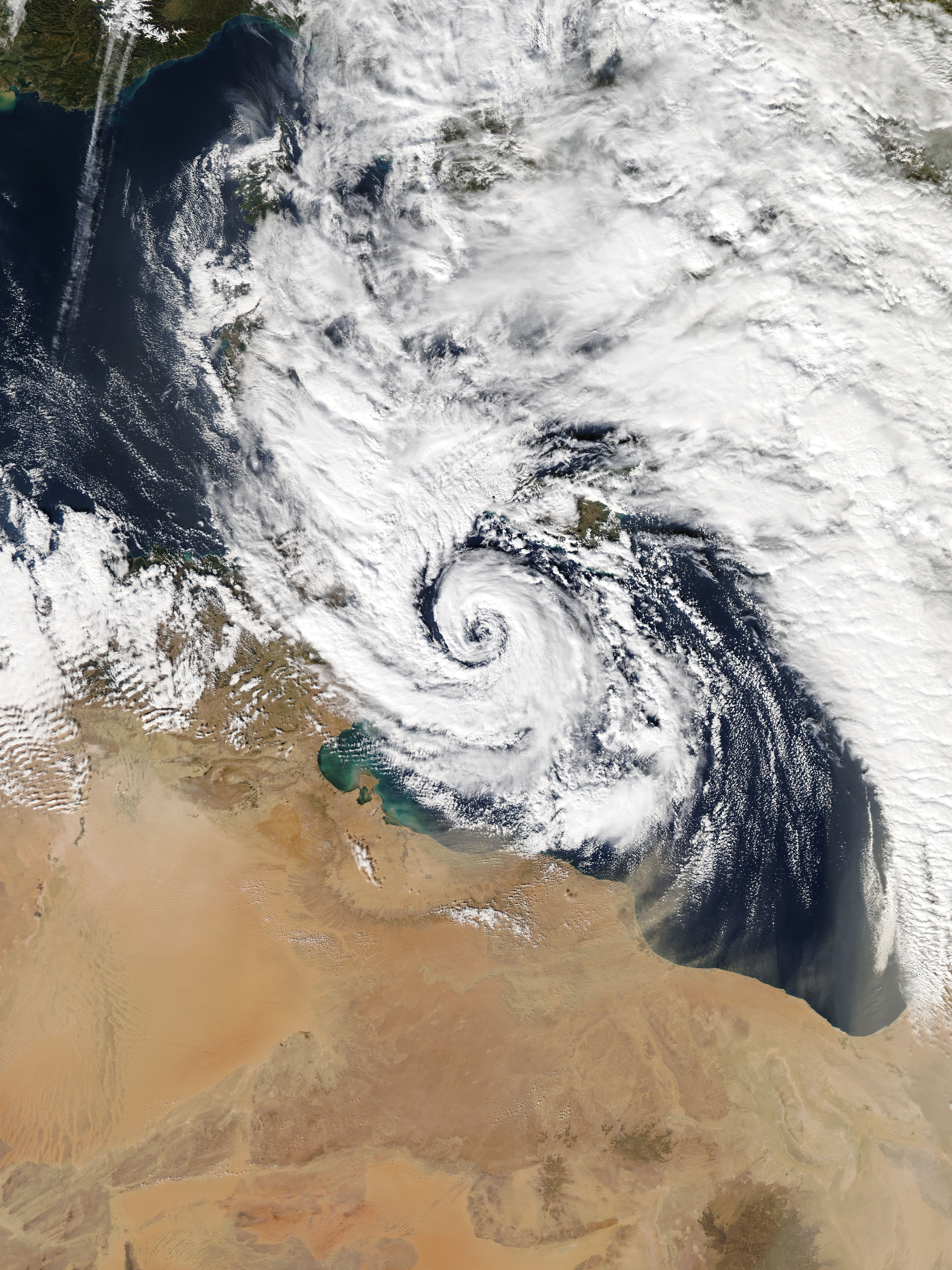 Qendresa the Mediterranean tropical-like cyclone rapidly intensifying and approaching Malta on 7 November 2014.